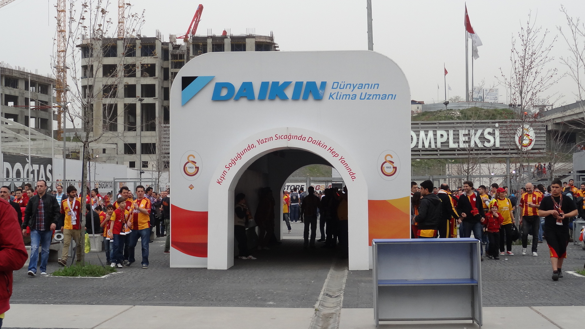 Daikin, Official Sponsor of Galatasaray SK, Ali Sami Yen Sports ComplexTürkçe: Daikin, Galatasaray SK Resmi Sponsoru, Ali Sami Yen Spor Kompleksi